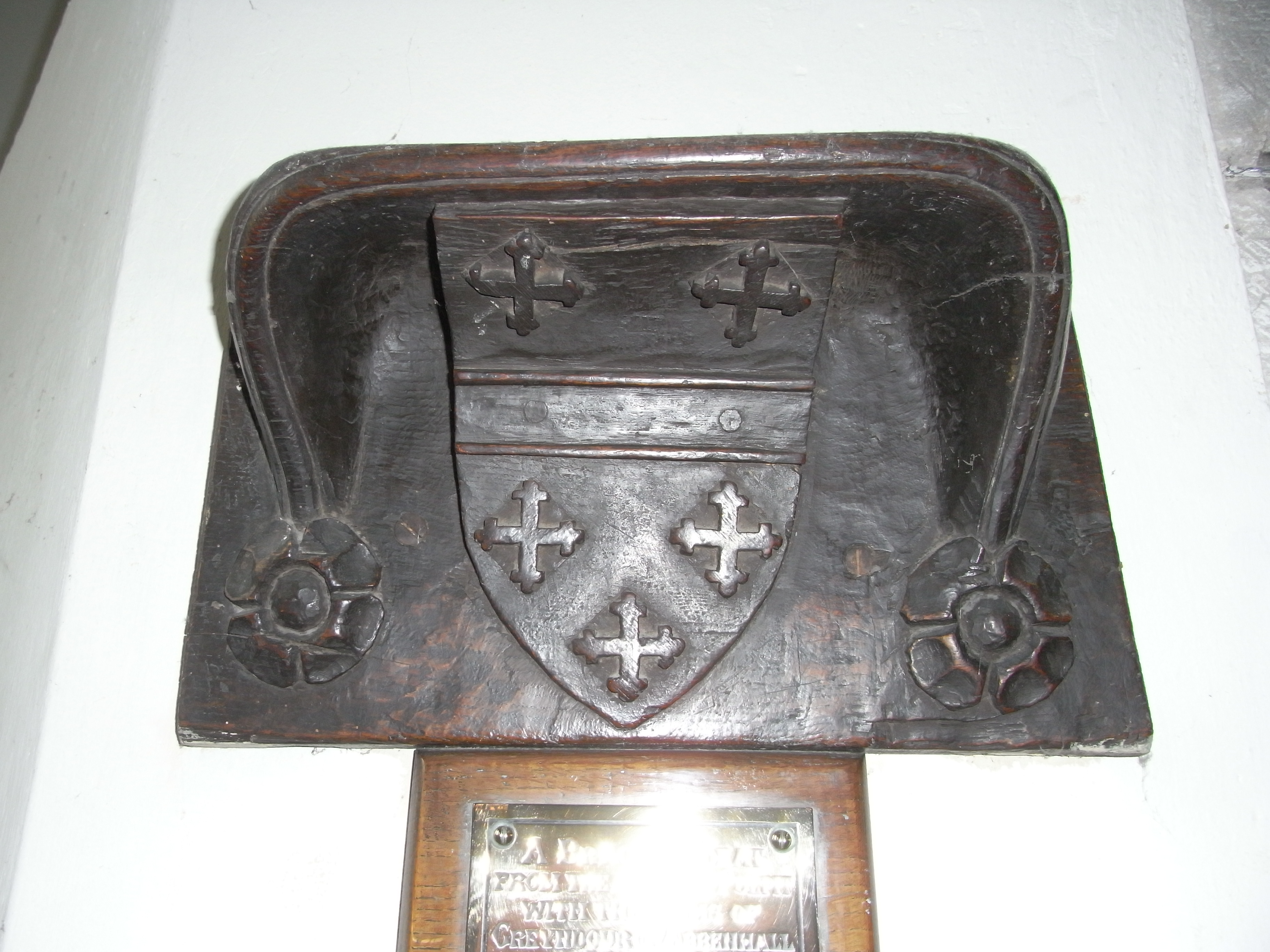 A circa 1480 date QS:P,+1480-00-00T00:00:00Z/9,P1480,Q5727902 wooden bracket seat attached to a former pulpit showing the Greyndour coat of arms in the parish church of Saint Michael and All Angels, Mitcheldean, Gloucestershire, England, UK. The blazon of the arms is "Or, a fess between five crosses crosslet gules two and three". The same coat of arms appears on a 19th-century monument to Thomas Baynham (died 1500) in the church.